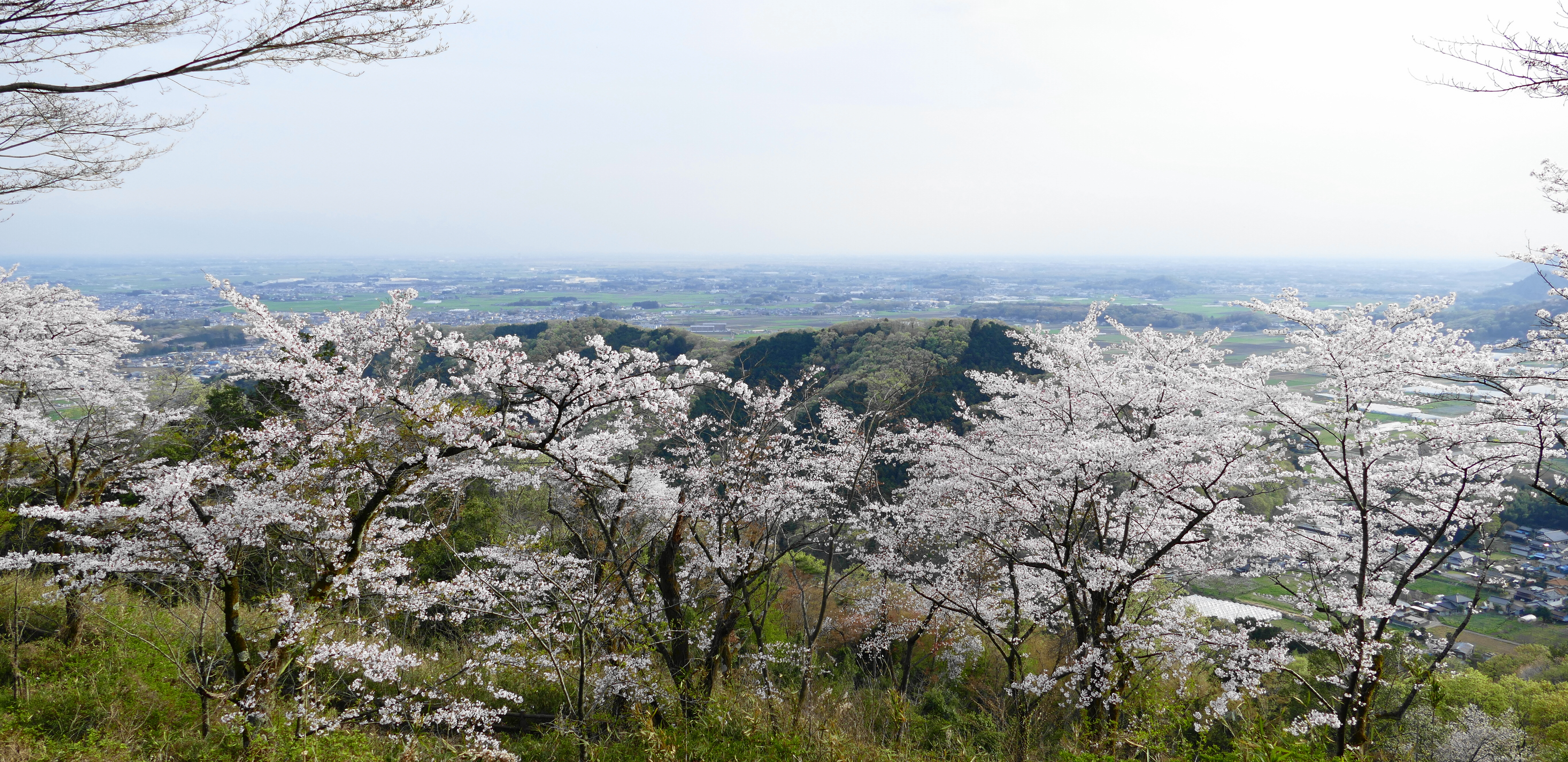 Ohirasan Prefectural Natural Park(Japan's Top 100 famous place of cherry trees),Tochigi prefecture,Japan